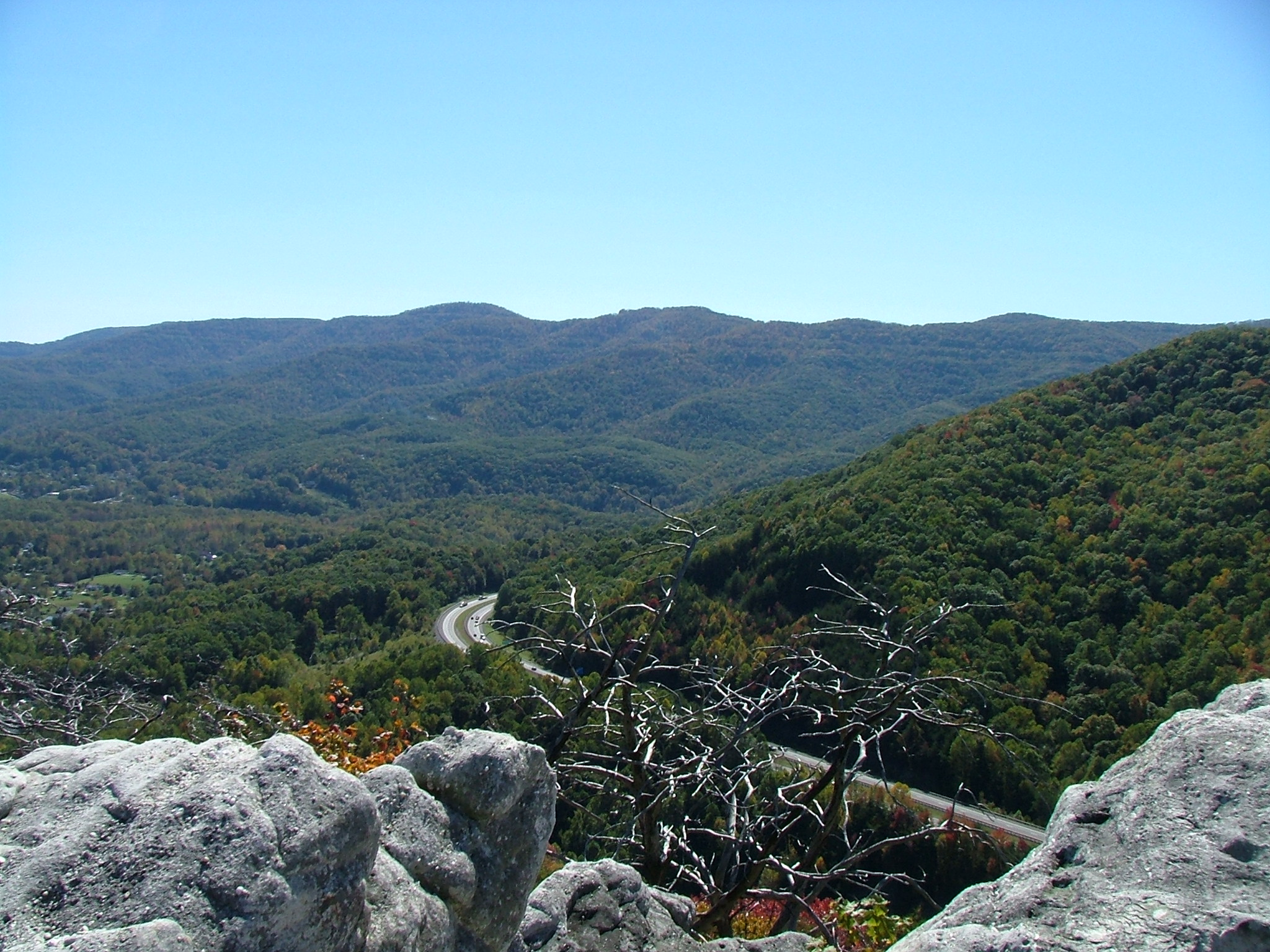 Cross Mountain taken from Cumberland Mountain